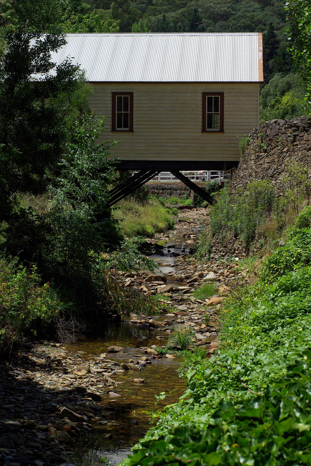 Original fire station building in Walhalla, Victoria, viewed side-on.